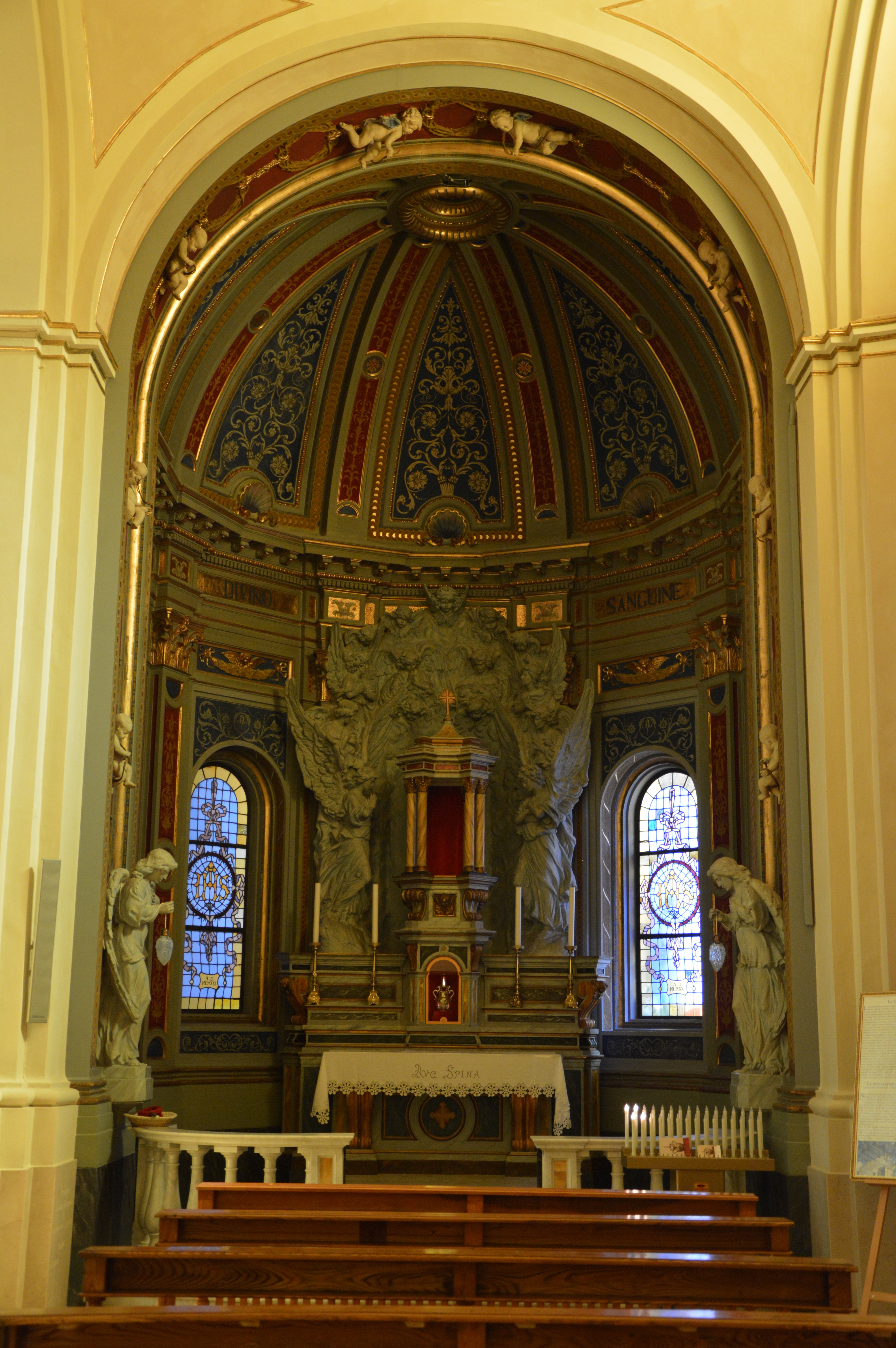 Cappella Sacra Spina